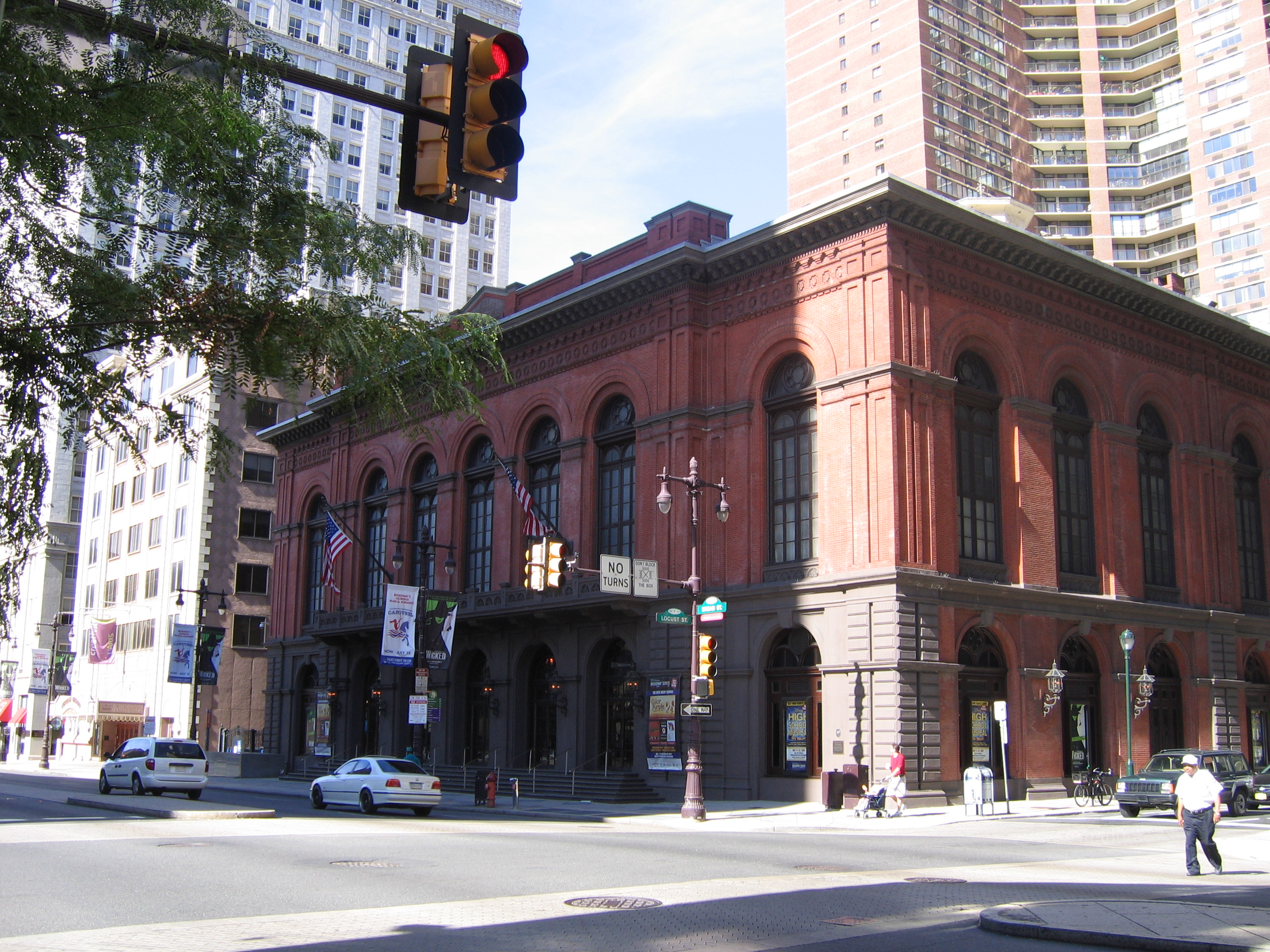 The Academy of Music in Philadelphia, Pennsylvania. The academy is located at the intersection of South Broad Street and Locust Street.